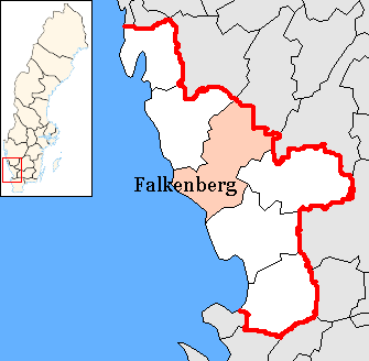 Falkenberg Municipality in Halland County Designd by me, based on Image:Halland County.png